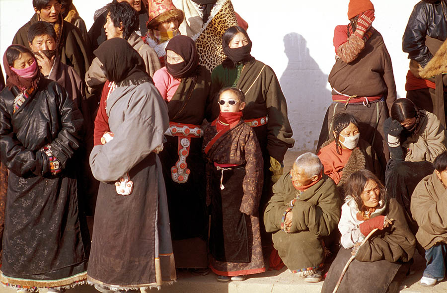 Tibetans as a main ethnic minority group in Sichuan Province, China. Aba County, China.